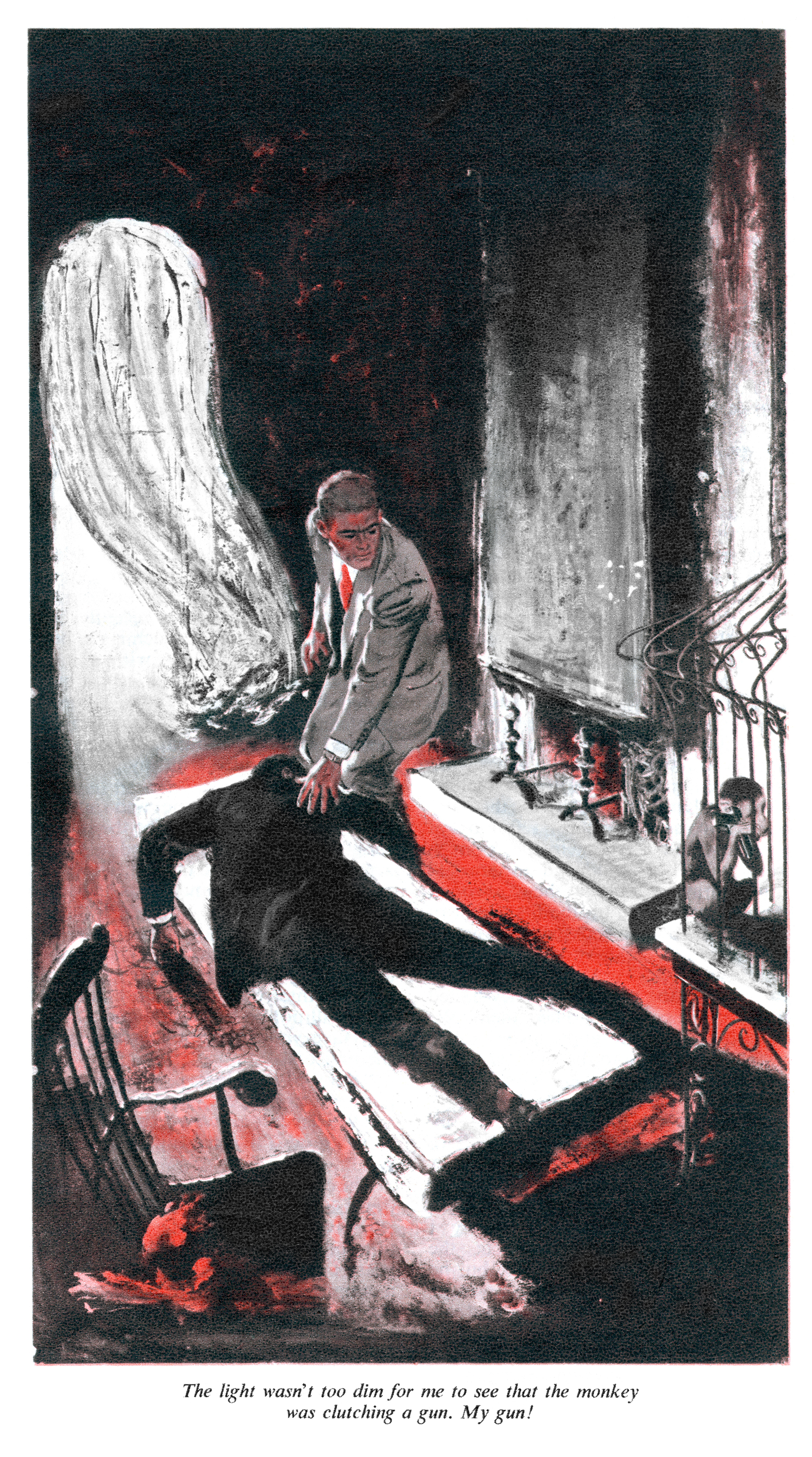 illustration from The American Magazine printing of "The Squirt and the Monkey", a Nero Wolfe short story by Rex Stout that first appeared under the title "See No Evil"